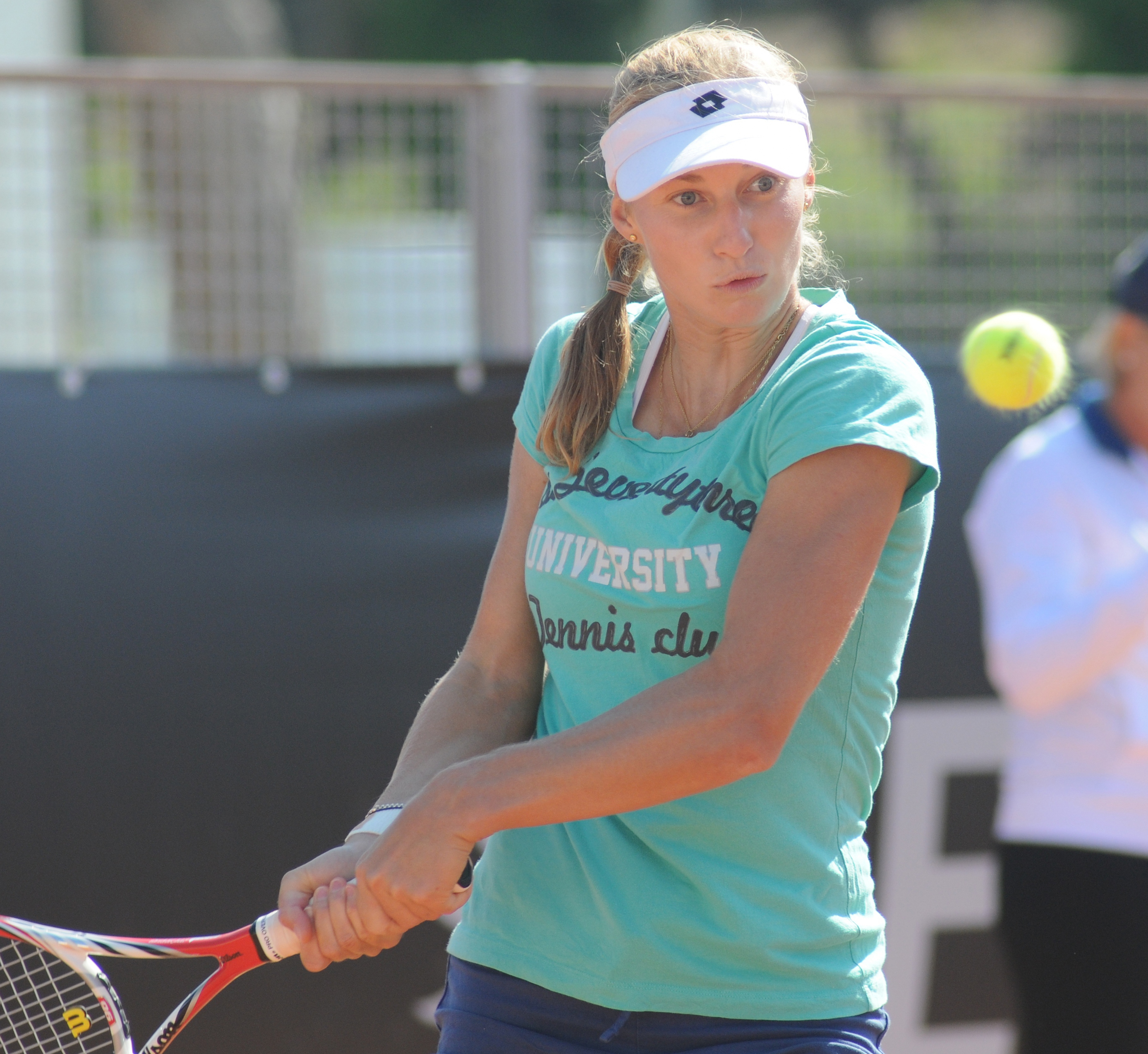 Ekaterina Makarova at the 2014 Internazionali BNL d'Italia aka the Rome Masters